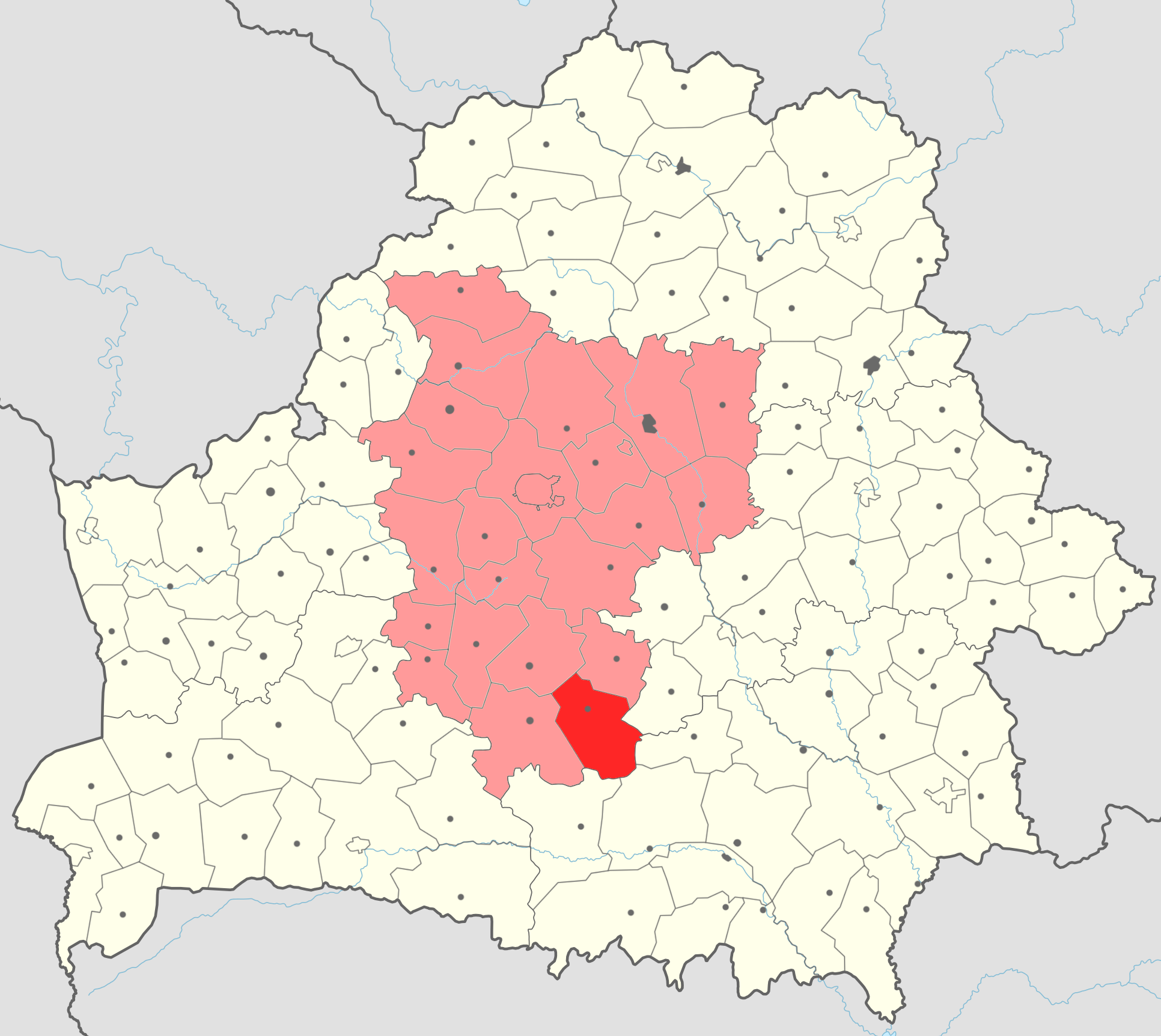 Map of Liuban' rayon (in red) with Minsk voblast' (in light red) on the map of Belarus.